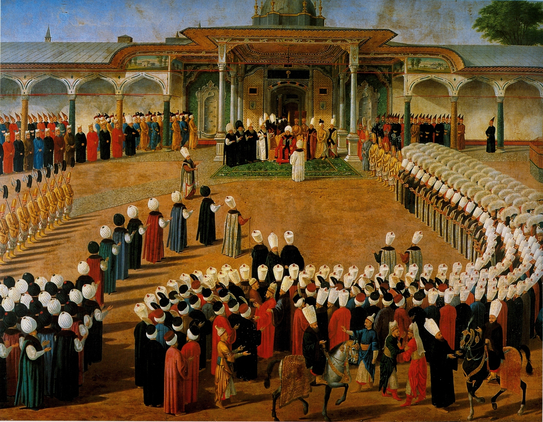 Konstantin_Kapidagli._Jülüs_ceremony_(Enthronement_ceremony)_of_Selim_III._c._1789._Topkapi_Saray_museum